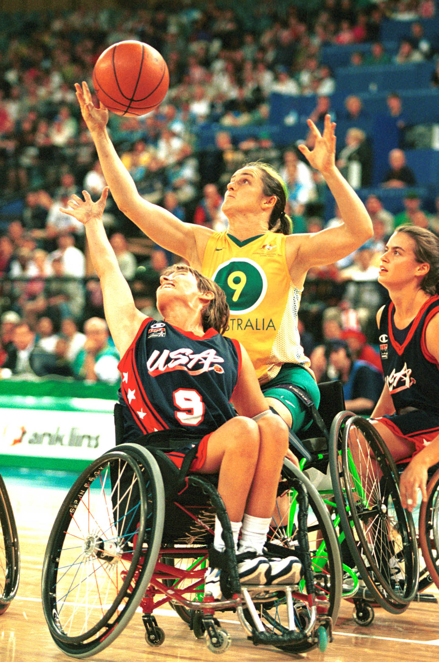 Australian wheelchair basketballer Liesl Tesch rebounds during 2000 Sydney Paralympic Games match